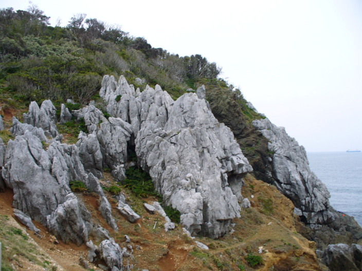 A karst area of Kamishima, an island in Toba city, Mie Prf., Japan.